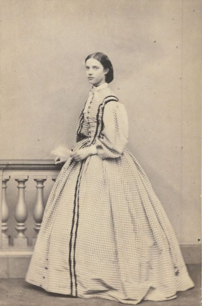 Empress Maria Feodorovna (Dagmar of Denmark)